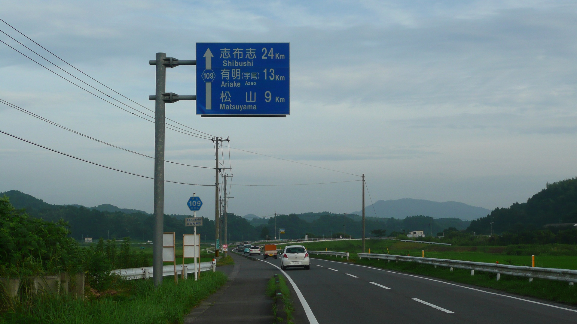 Kagoshima Prefectural Road No.109 Iino-Matsuyama-Miyakonojo Line (Sueyoshi, Soo City, Kagoshima, Japan)